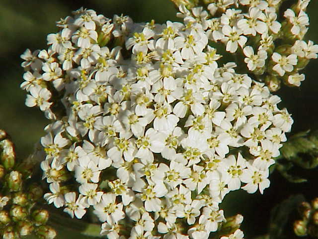 Species: Achillea asplenifolia Family: Compositae Image No. 1